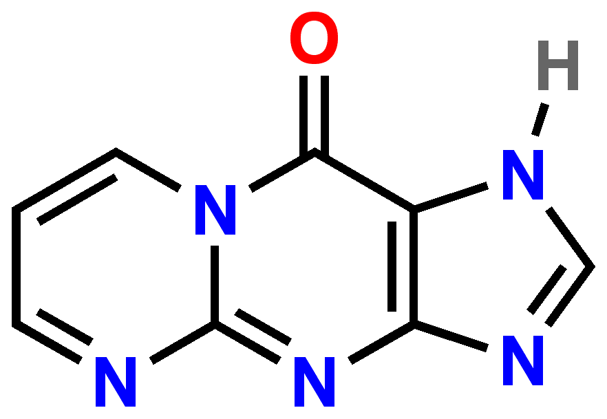 M1G, (pyrimido[1,2-a]purin-10(3H)-one), chemical released by repair of DNA adducts